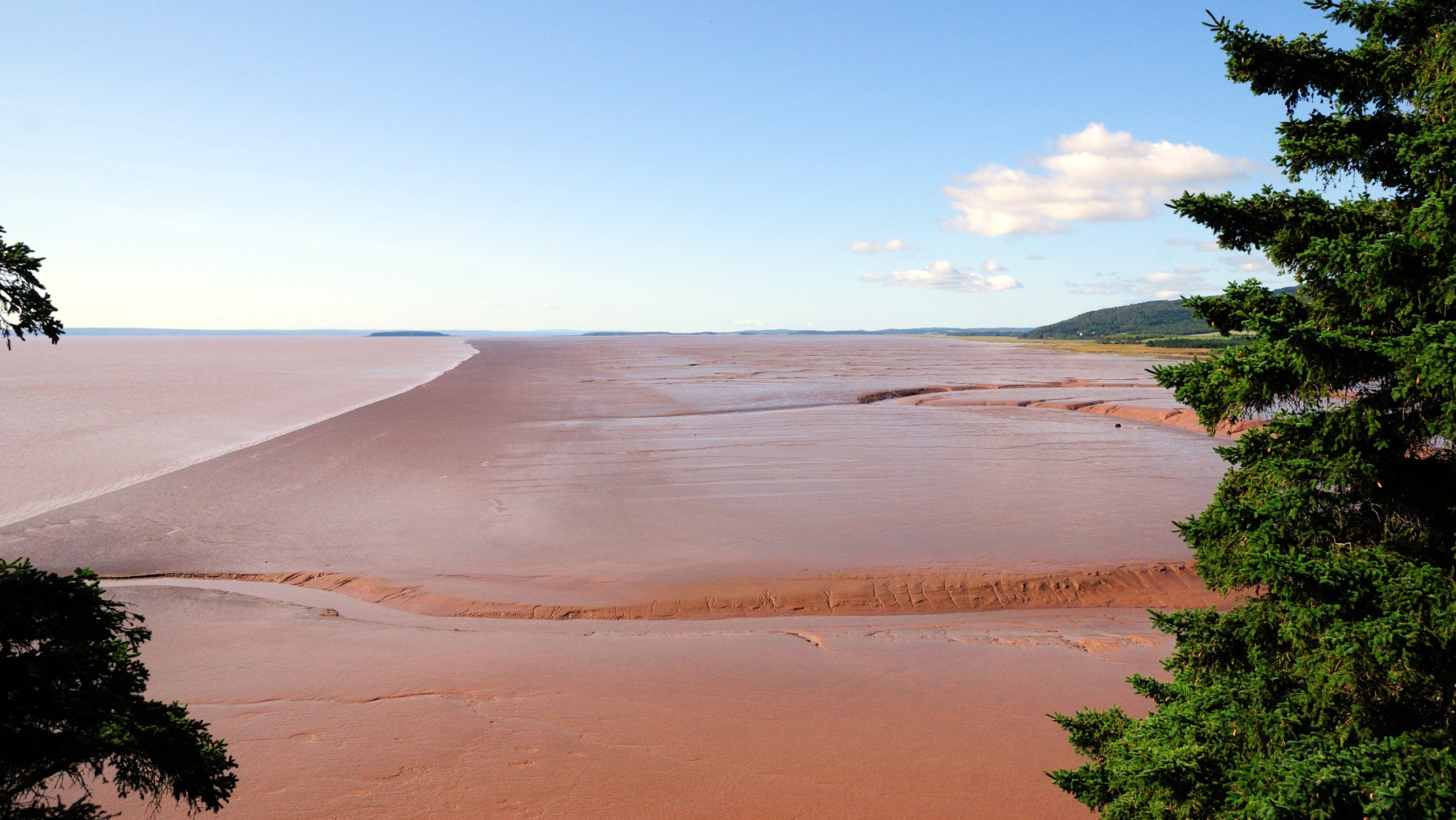 The Daniel’s Flats, an extensive mud flat at the northwestern side of Chignecto Bay (“north fork” of the upper Bay of Fundy), New Brunswick, Canada, at low tide. The mudflats of the upper area of Bay of Fundy are a very rare habitat recognized of great importance to diversity of shorebirds and other specimens of intertidal fauna.